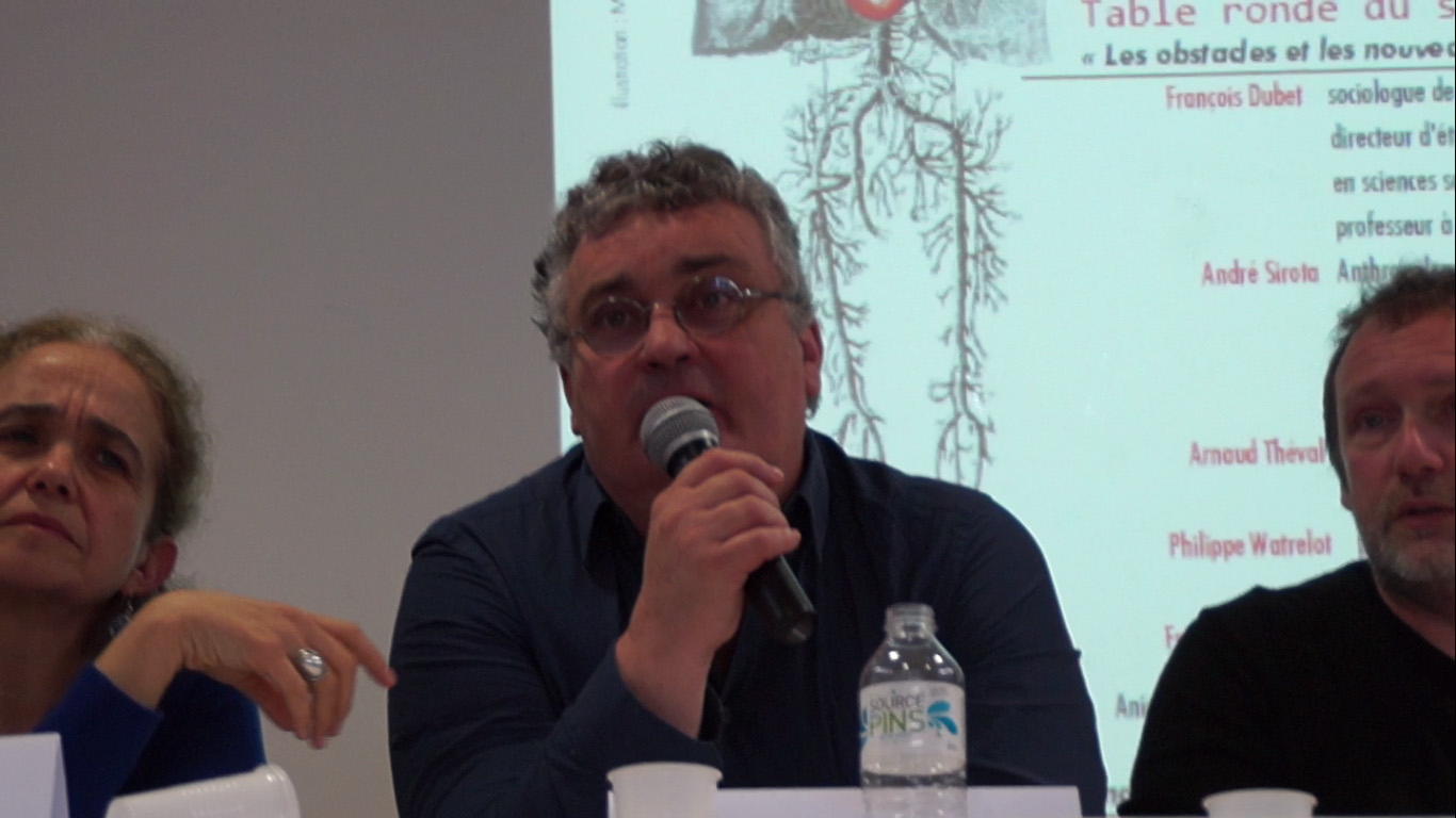 ConfFespi